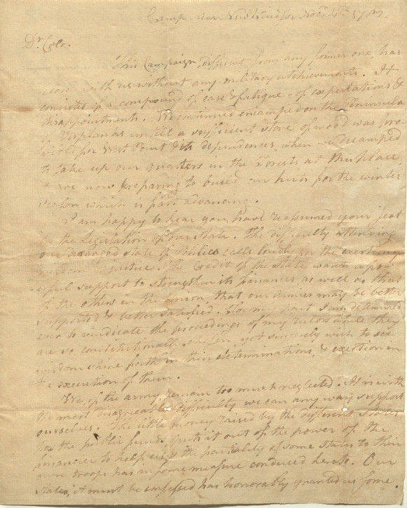 Correspondence from Ebenezer Elmer, Brigadier General of the New Jersey Militia, to Shreve on November 4, 1782. Sent from Camp near New Windsor.